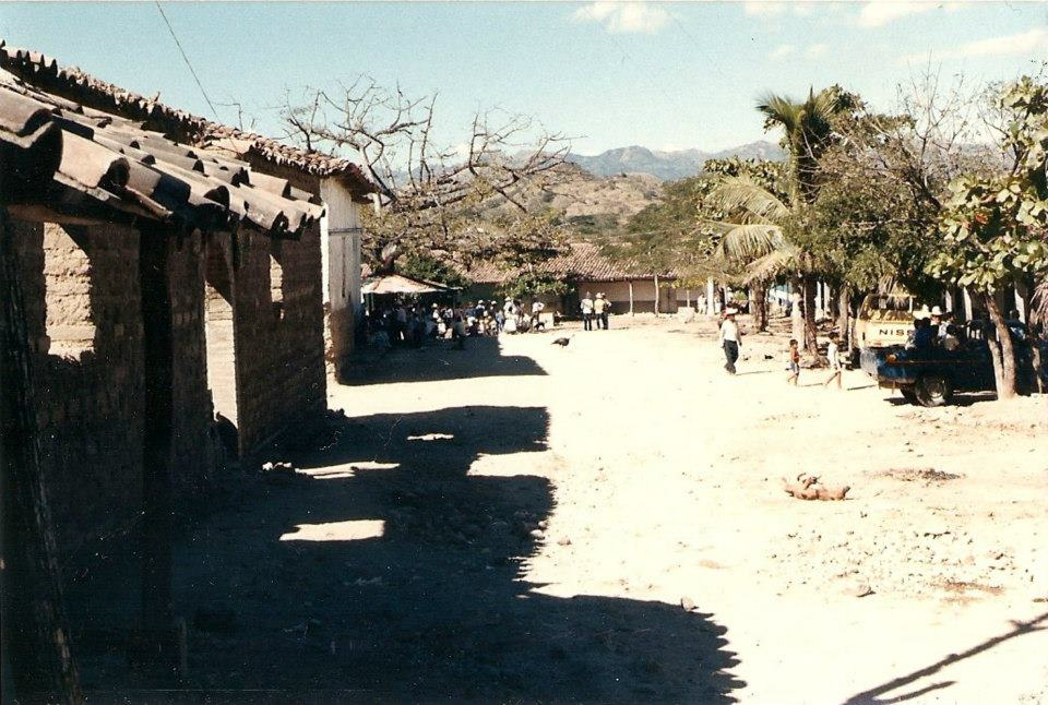 historia